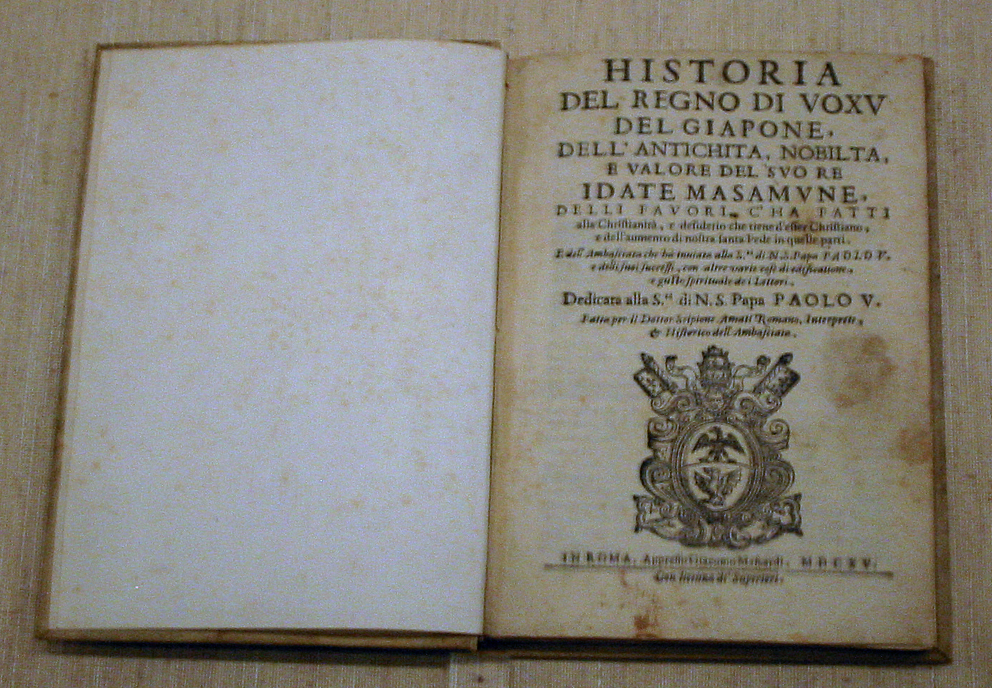 Scipione Amati's book "History of the Kingdom of Mutsu Province". VOXV (Woxu) is Ōshū in Japanese pronunciation, and it means Mutsu Province.